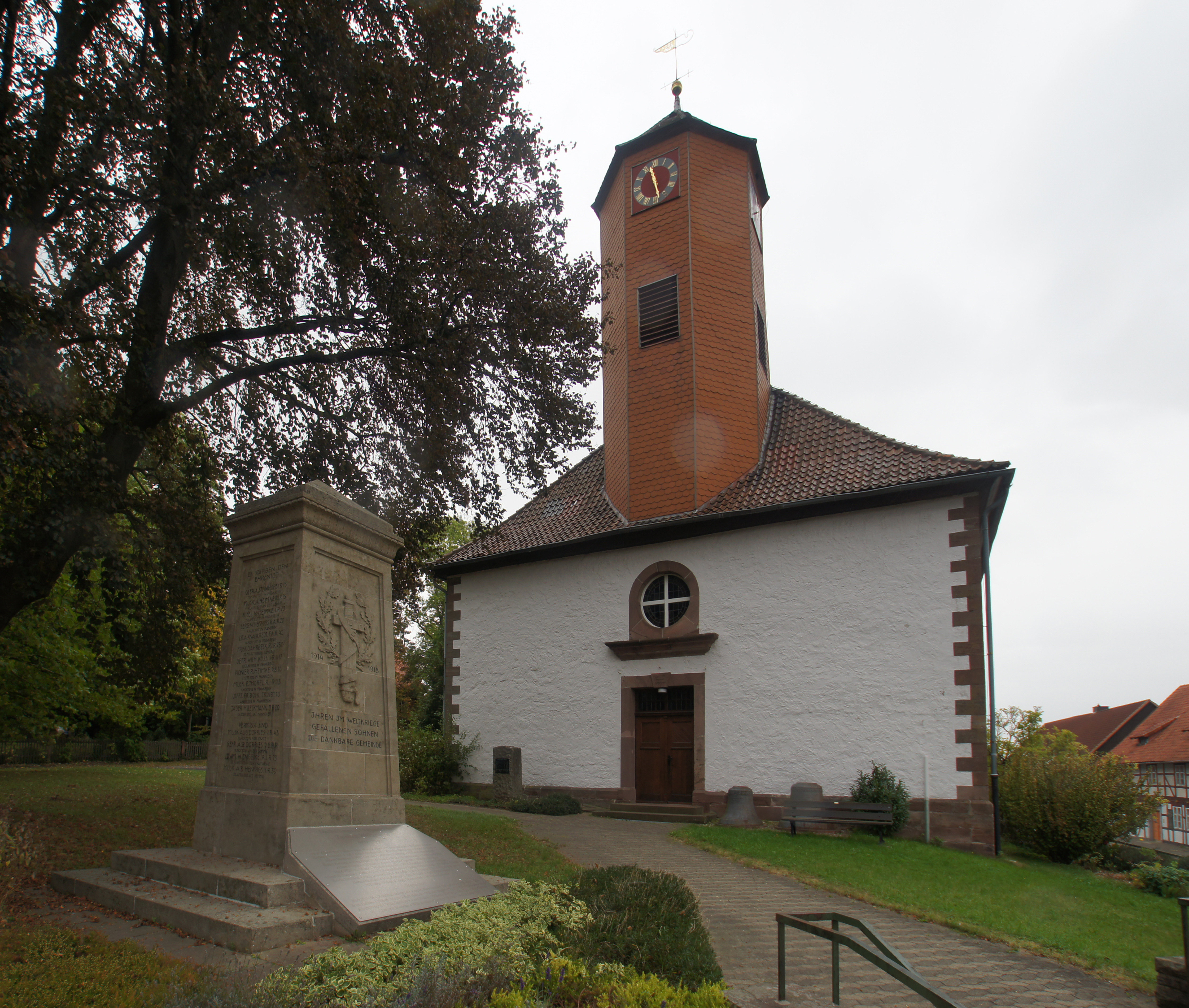 Einbeck (Wenzen), Germany: Saint James Church